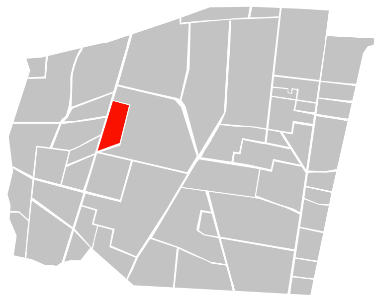 Map of Delegación Benito Juárez in Mexico City, with Colonia Insurgentes San Borja highlighted in red